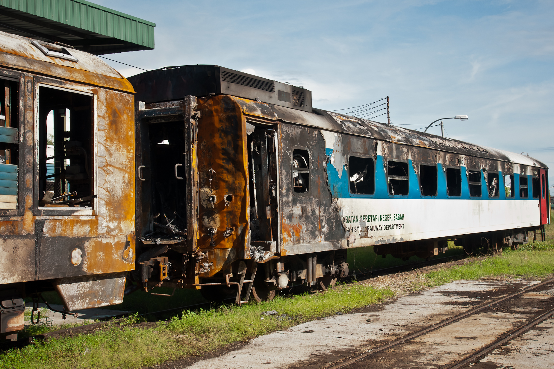 Destroyed cars of Sabah State Railways after the collision with a tank truck, November 1, 2011, Photo taken after the accident in the depot Tanjung Aru